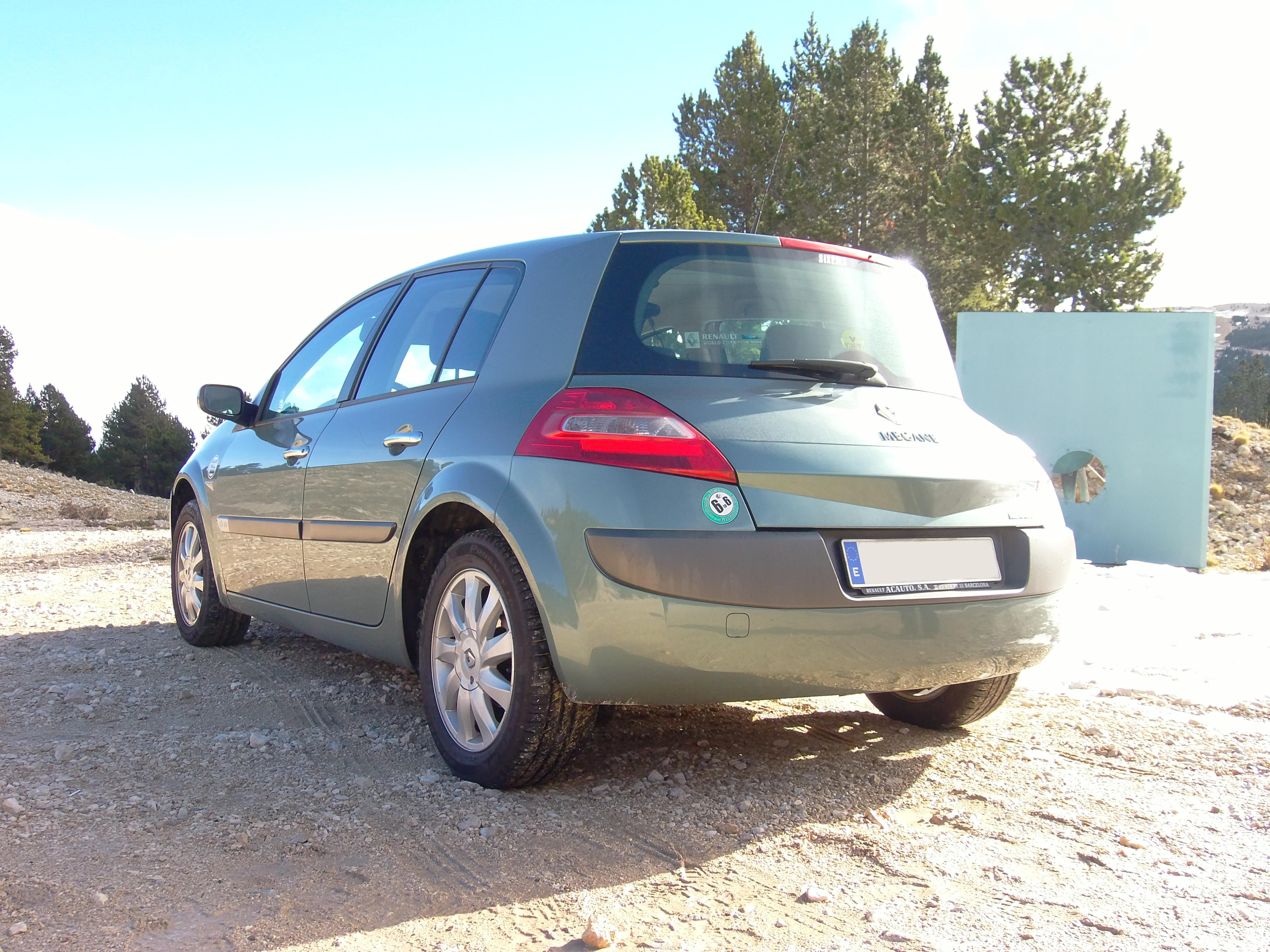 Renault Mégane 2006 Rear